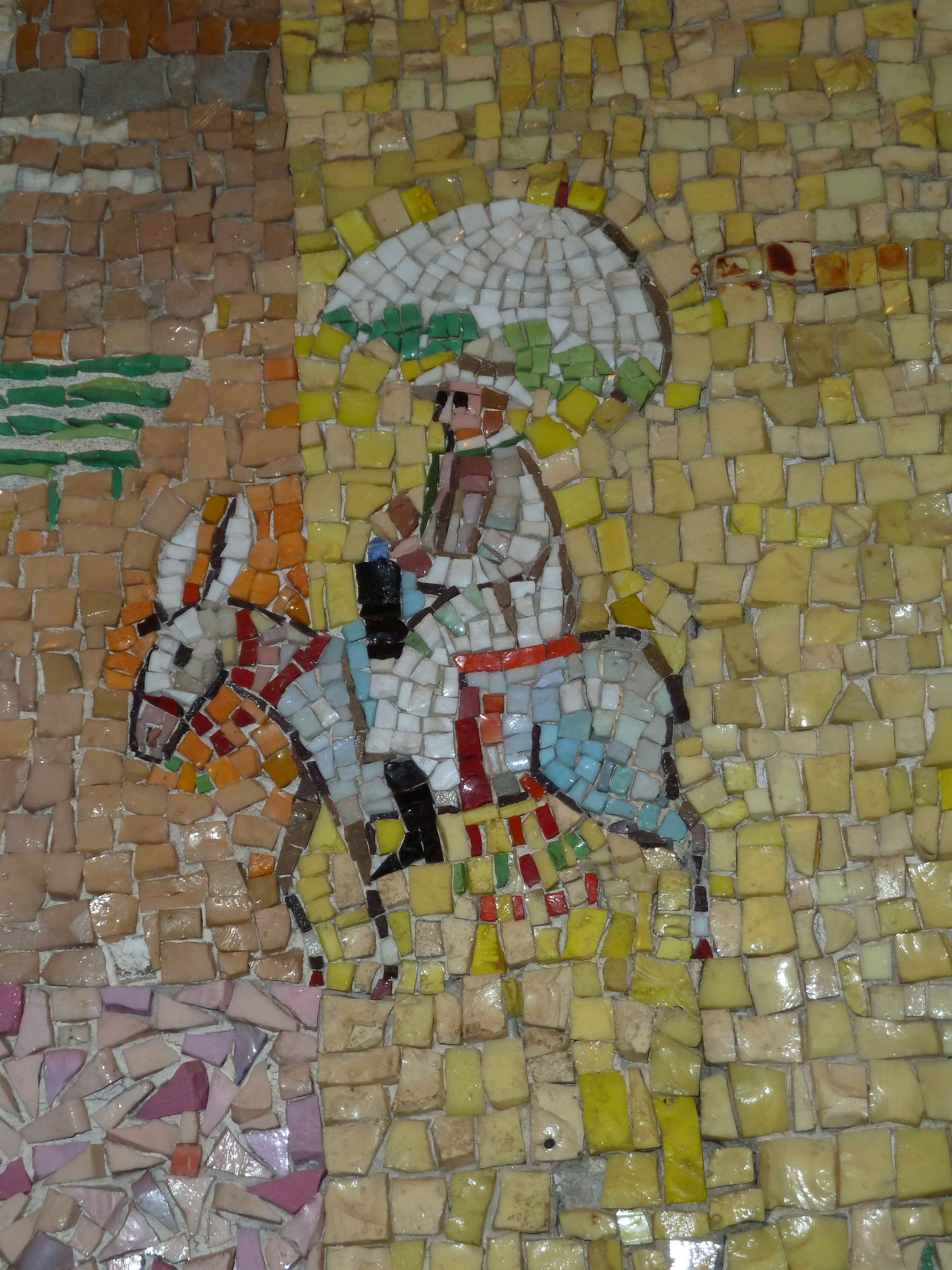 Herzliya Hebrew Gymnasium mosaic by Nahum Gutman, at Shalom Meir Tower